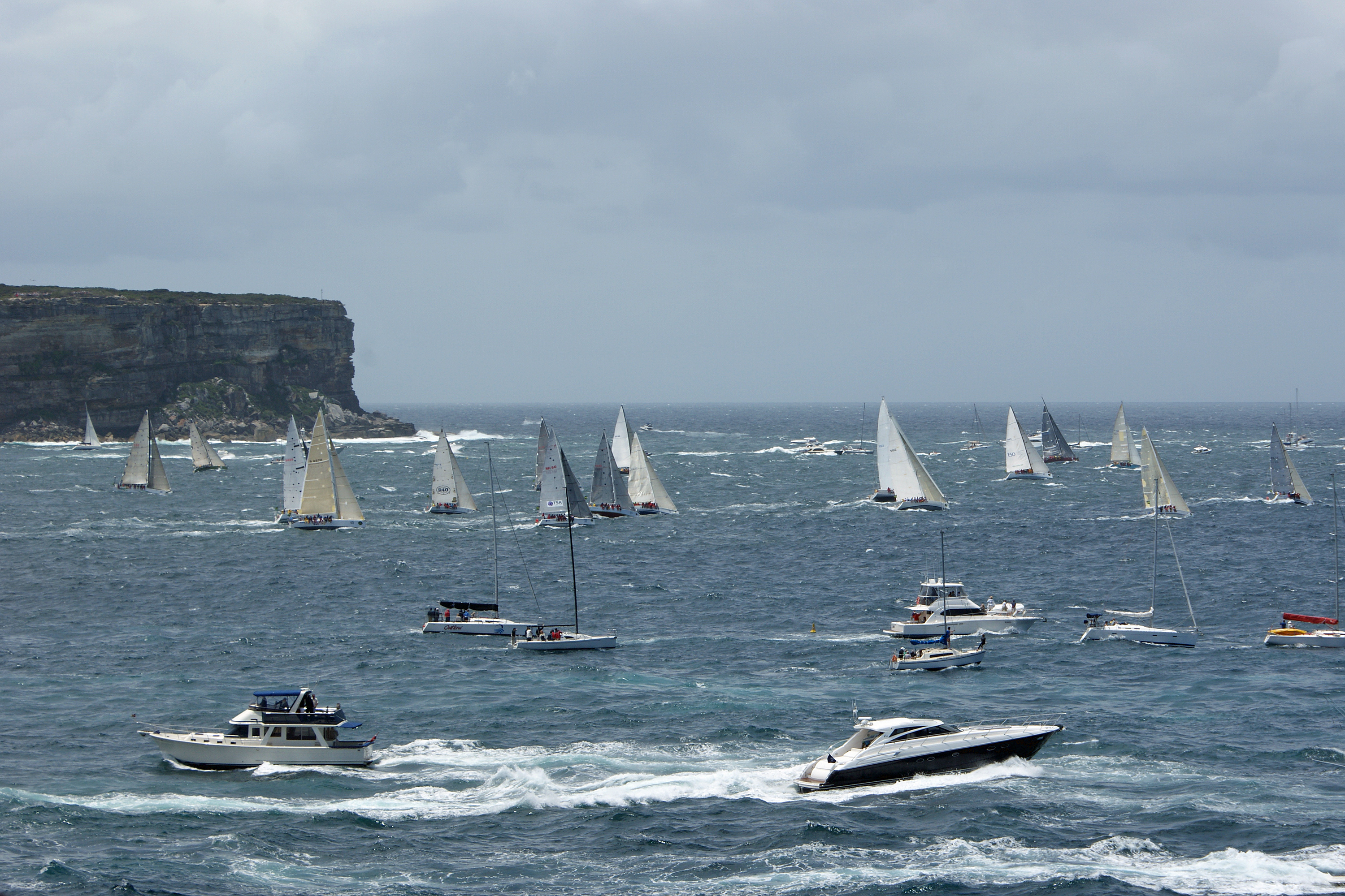 2012 Sydney to Hobart Yacht Race Yachts leaving Sydney harbour to the ocean. North Head in the background, some spectators on boats in the front.